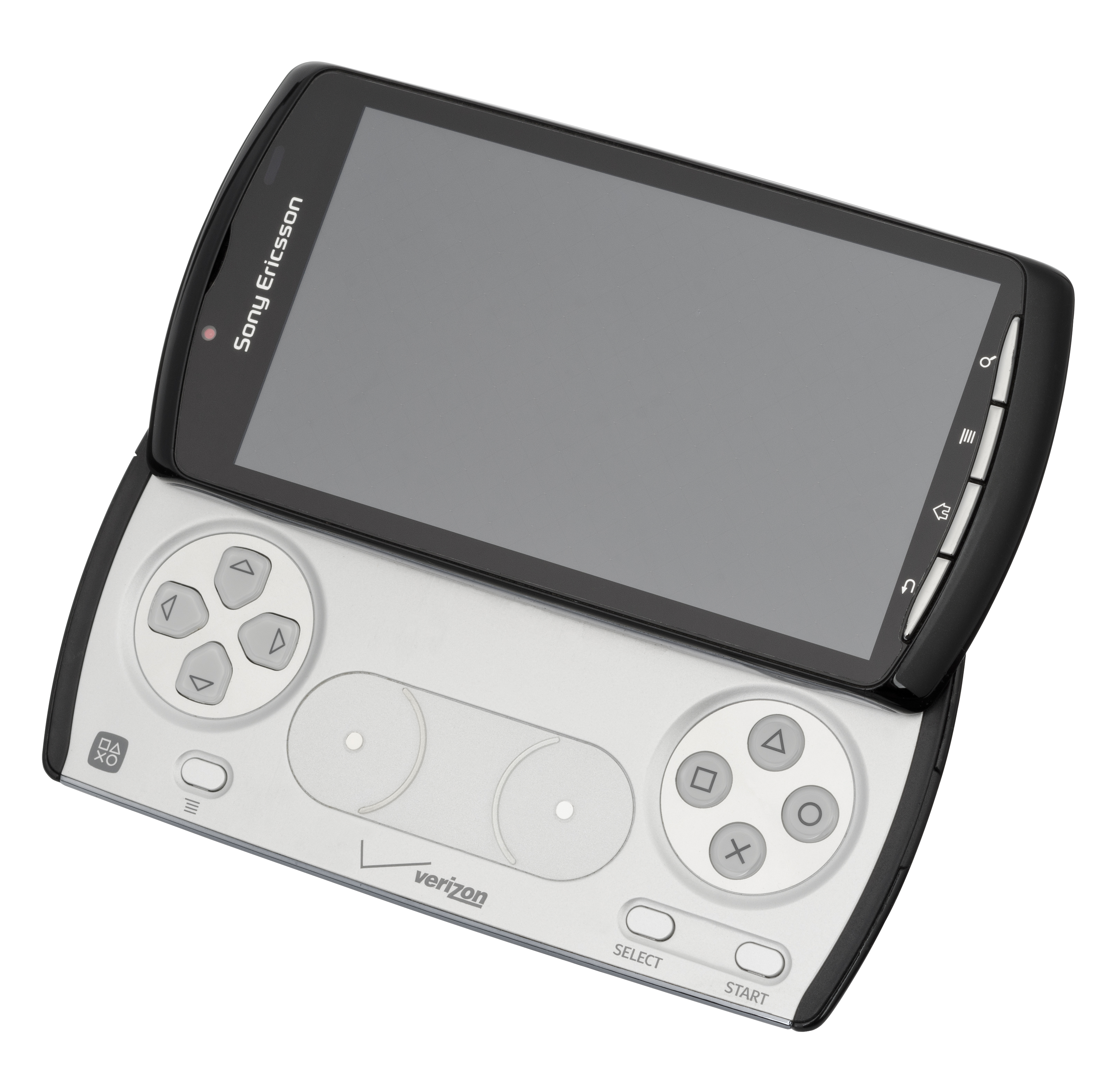 The Sony Xperia Play phone, shown opened. Released in 2011, this Android phone featured a slide-out section with traditional game controls, similar to a Sony PSP Go. It was able to play PlayStation Mobile games, which includes ports of original PlayStation games, PSP games and some original titles.